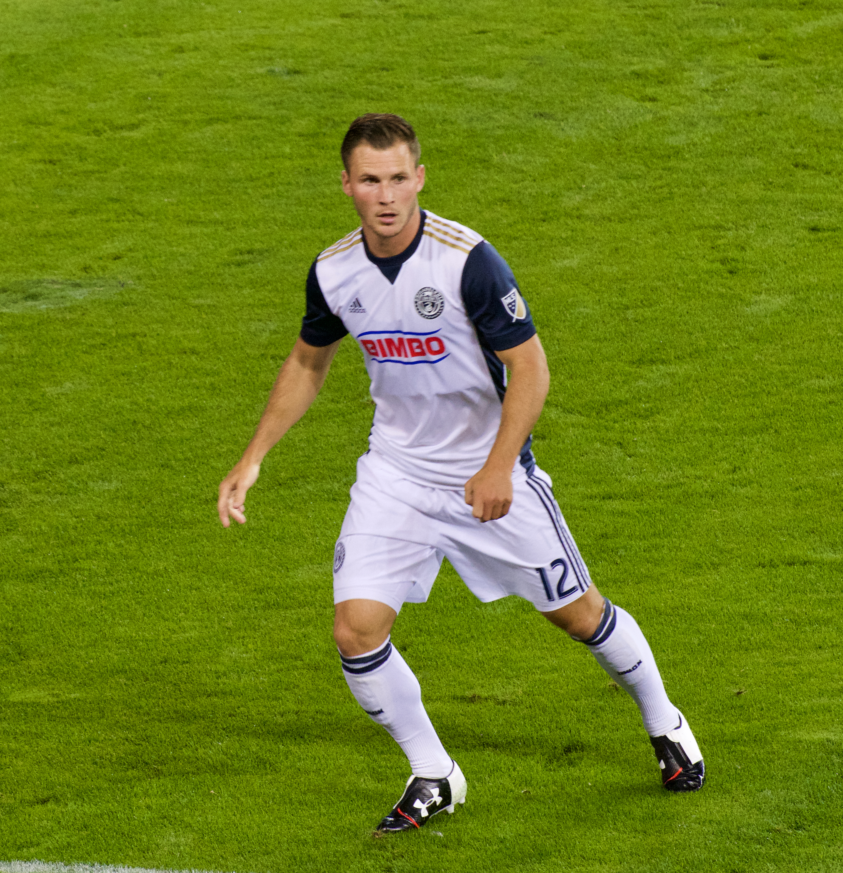 Keegan Rosenberry playing for Philadelphia Union at Avaya Stadium on 19 August 2017.